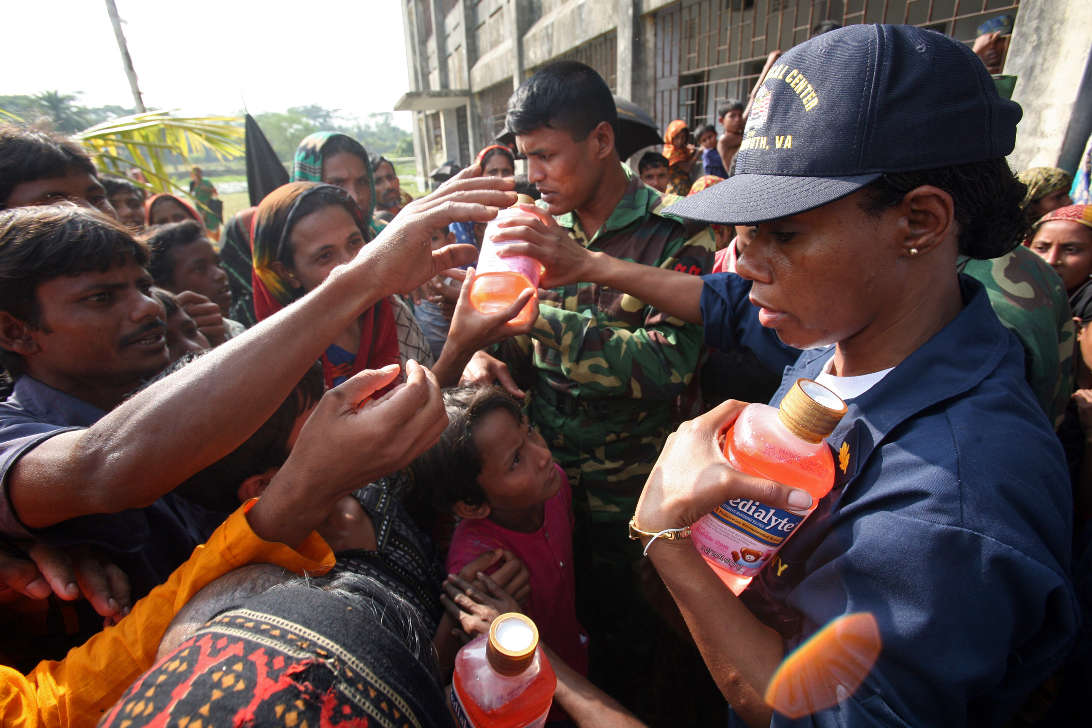 RANGABALI, Bangladesh (Dec. 1, 2007) U.S. Navy Lt. Pandora J. Liptrot, a Fleet Surgical Team 4 nurse assigned to the amphibious assault ship USS Kearsarge (LHD 3), passes out bottles of Pedialyte during a humanitarian relief mission. Kearsarge and 22nd Marine Expeditionary Unit (MEU) (Special Operations Capable) are providing humanitarian aid at the request of the Bangladesh government to the victims of Tropical Cyclone Sidr, which tore through southern Bangladesh Nov. 15. U.S. Marine Corps photo by Cpl. Peter R. Miller (RELEASED)